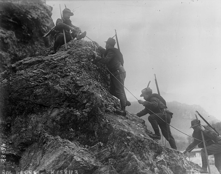 Italian alpine troops during the first world war